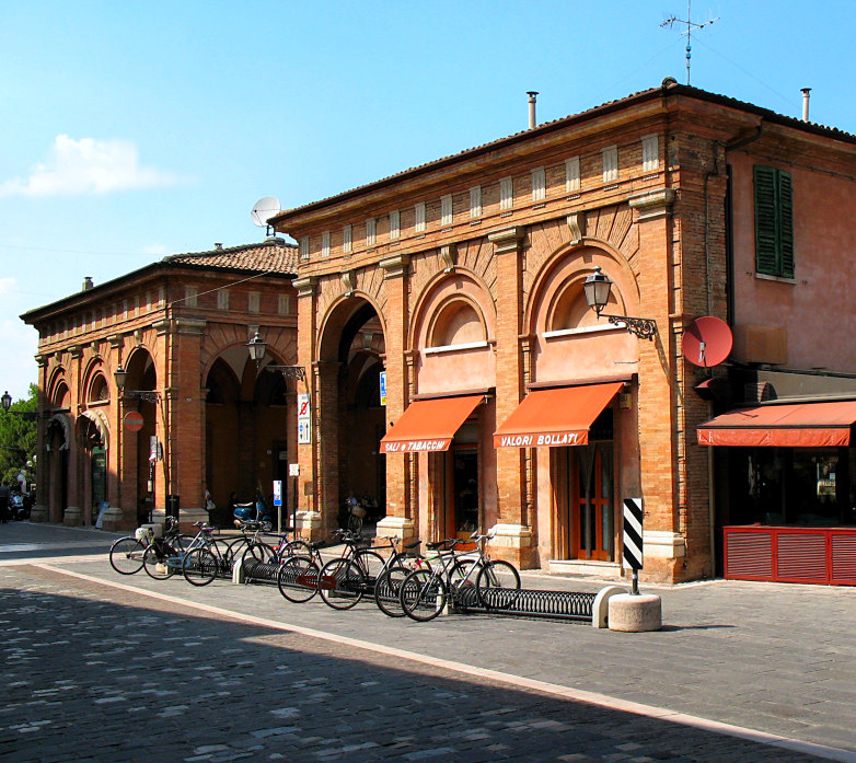 The Barriera Cavour in Cesena.